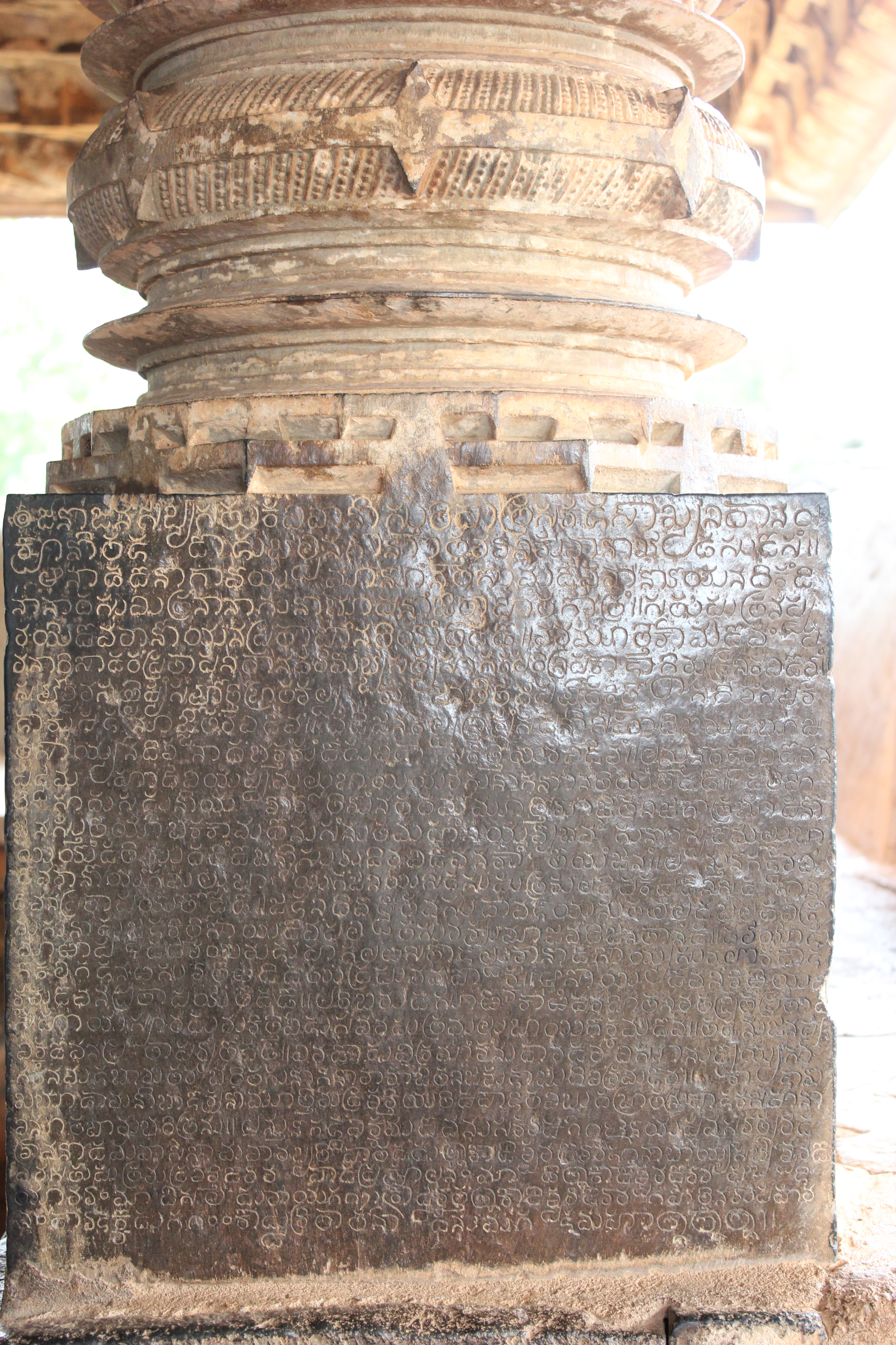 This photograph was taken by me at the Kaitabhesvara (also spelt Kaitabheshvara or Kaitabheshwara) temple in Kubatur (also spelt Kubattur, Kuppattur or called Kotipura) in the Shivamogga district (Shimoga), Karnataka state, India. The temple was built around 1100 AD during the reign of Hoysala King Vinayaditya, a feudatory of the Western Chalukya emperor Vikramaditya VI. The architectural style is very Chalukyan. The old Kannada inscription is dated 1241-1249 A.D. Souce:1) Epigraphia Carnatica, Inscriptions in Shimoga, Mysore Archaeological Survey, Volume 8, Part 2, by Benjamin Lewis Rice, Mysore Government Central Press, 1904. chapter:List of Inscriptions by Chronological Order, pg.5; Translations, Sorab Taluq, pg. 44-45; Text of Inscriptions in Roman Characters, pg.88-92;2) Indian Temple Architecture: Form and Transformation : the Karṇāṭa Drāviḍa Tradition, 7th to 13th Centuries, Chapter=Introduction, Abhinav Publications, 1995, pg.14, ISBN 81-7017-312-4